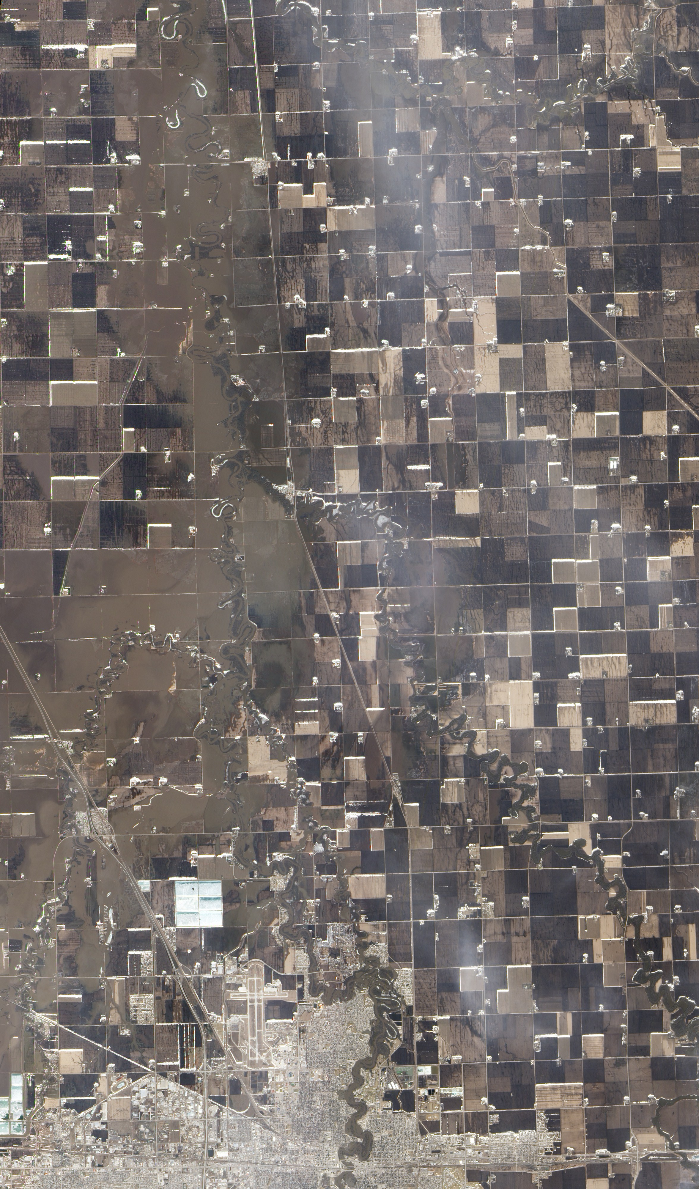 The Sheyenne, Red, and Buffalo Rivers all flow through the area pictured here. Muddy water and fallow fields blend together. Much of the standing water apparent in this image occurs around the Sheyenne and Buffalo Rivers.